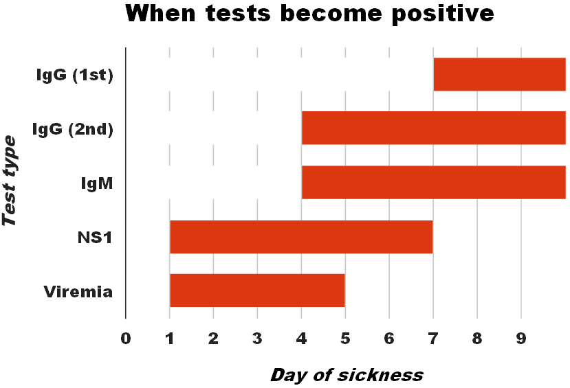 A diagram illustrating when different types of tests become positive in dengue fever